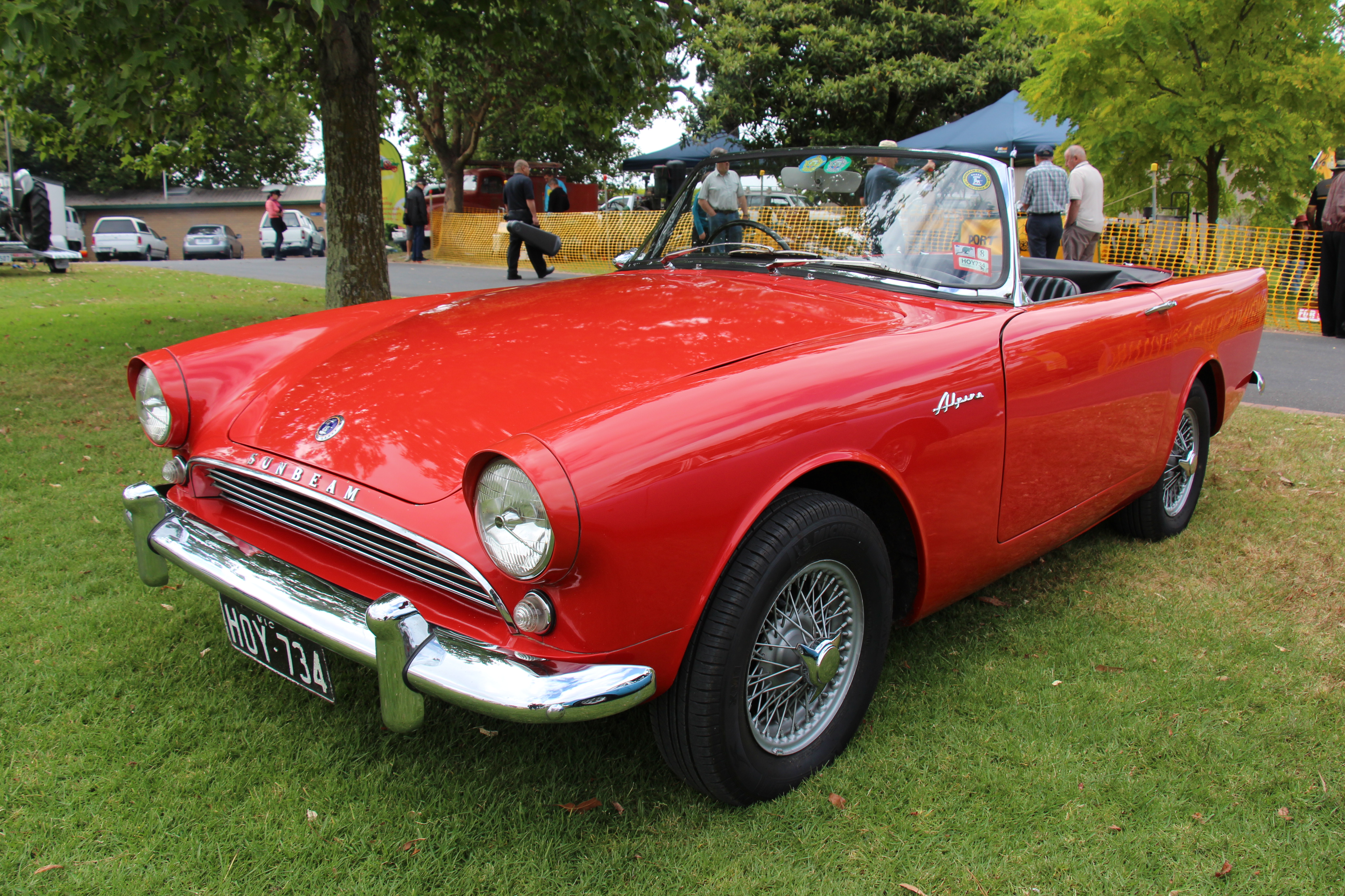 A 2 seat open sports car produced by the Rootes Group. Built on the floorpan of the Hillman Husky and the running gear from the Sunbeam Rapier. The 1959 Series I had a 1497cc 4 cyl. The 1960 Series II got an enlarged 1592cc engine. The 1963 Series III had the qtr vent windows and large tail fins. The 1964 Series IV the fins were reduced again. The 1965 Series V got the larger 1725cc engine